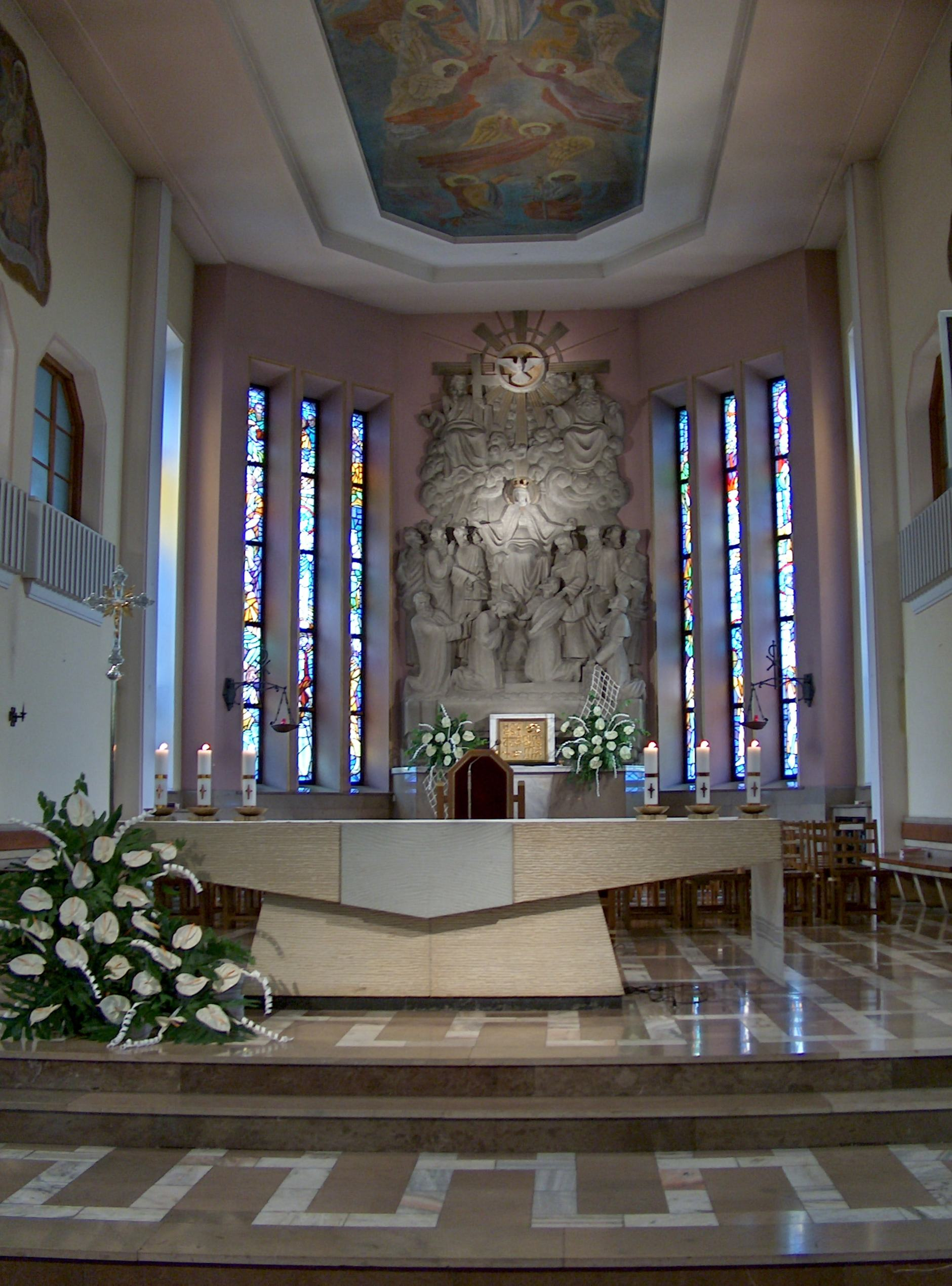 The church of Pallottine Seminary in Ołtarzew, Poland